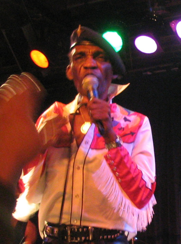 Desmond Dekker in San Francisco, USA. Cropped version of Image:Desmond_Dekker_-_by_sean_mason.jpg.